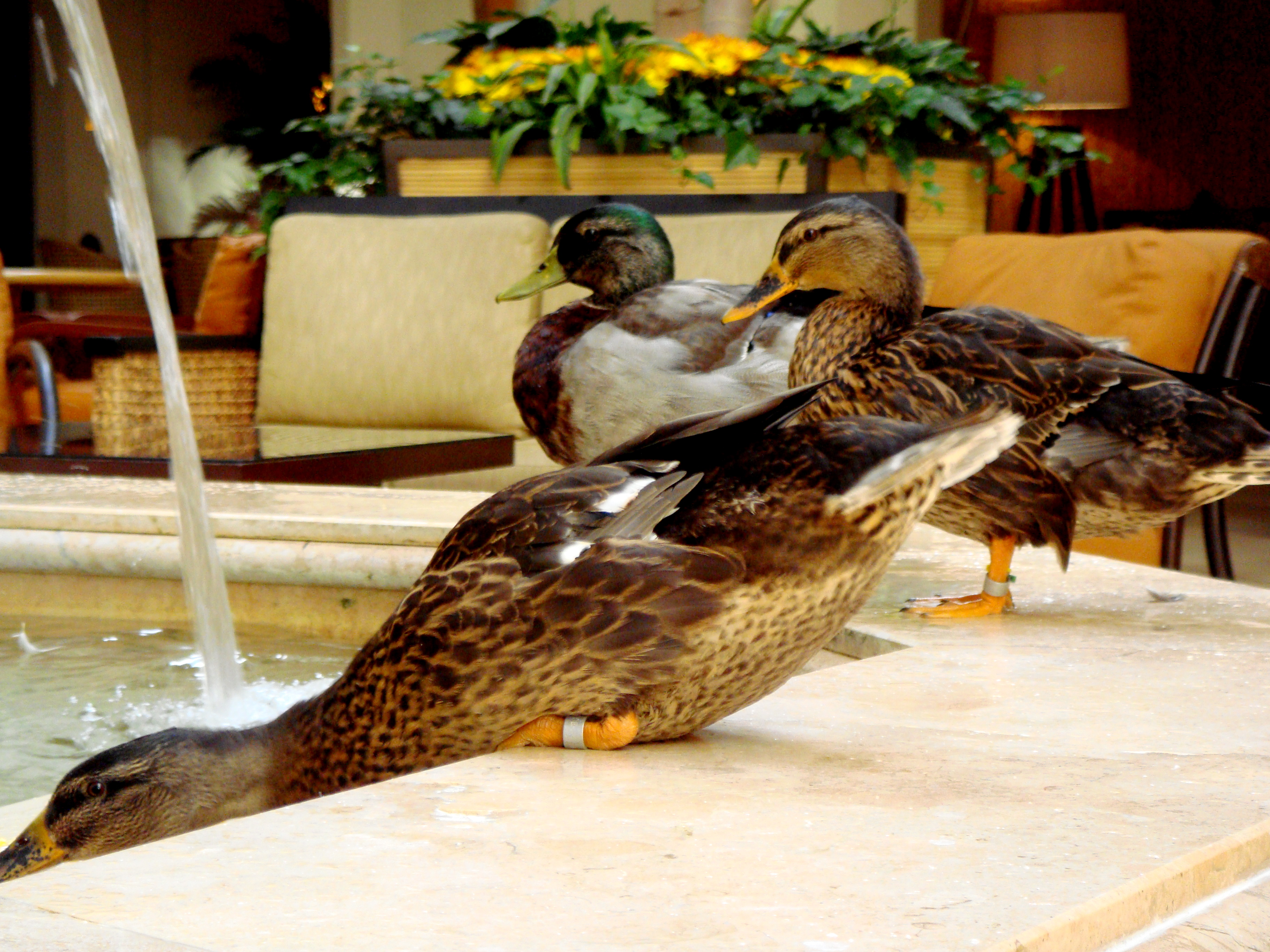 Ducks playing in the fountain at the Peabody Hotel in Downtown Memphis, Tennessee.